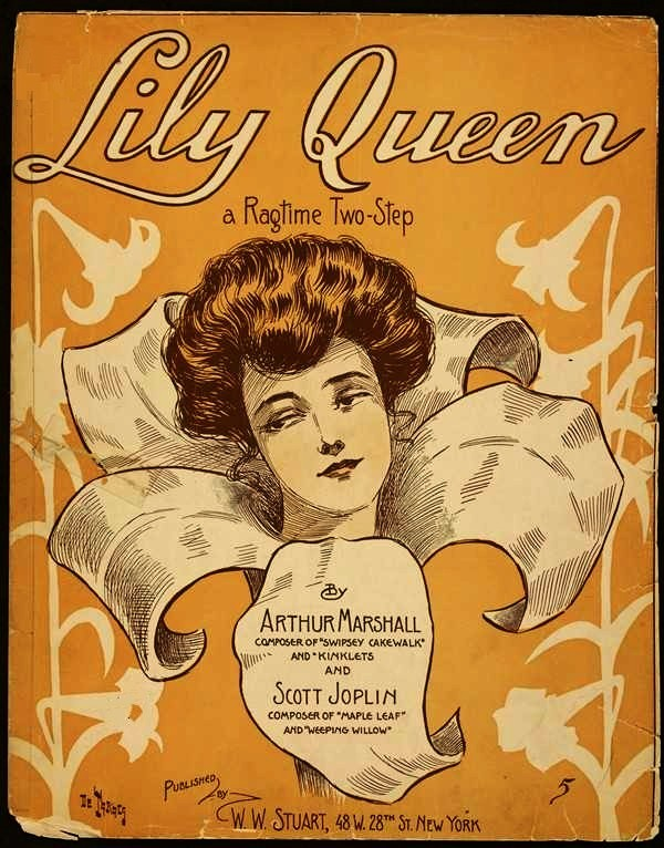 Lyly Queen, 1907